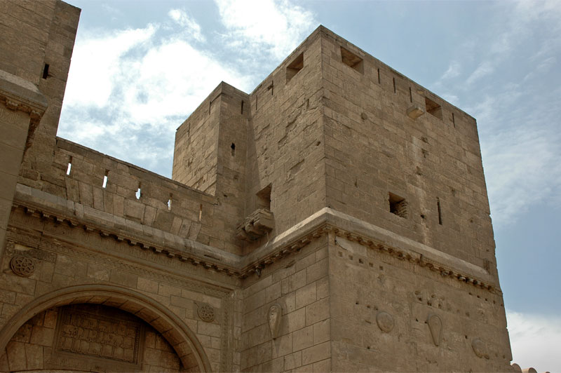 Bab al-Nasr. Cairo. Egypt